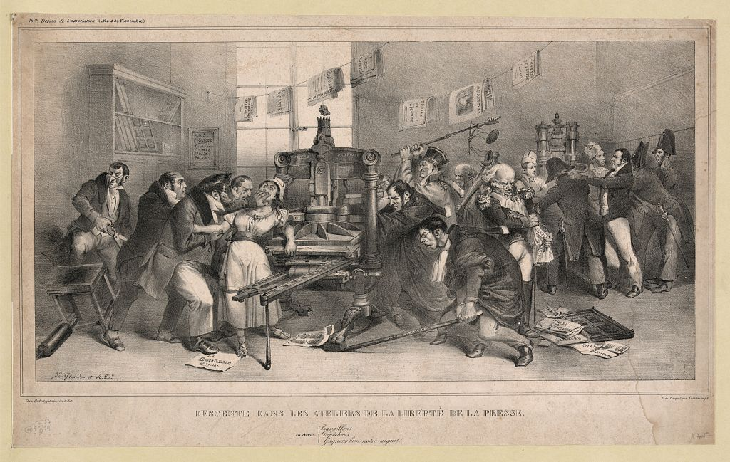 "Descente dans les ateliers de la liberté de la presse" ("Raid on the workshops of the freedom of the press"). Library of Congress description : "Print shows on the left, King Louis-Philippe in a right side profile, whiskers obscuring his face, with his hand over the mouth of a female printer, representing freedom of the press, and showing on the far left, Jean-Charles Persil holding a large pair of scissors, the typical device identifying a censor. Other government officials attempt to overturn the press and confront other printers near a press in the background. Hanging from wires above are issues of "La Caricature" and "Droits de L'Homme"."